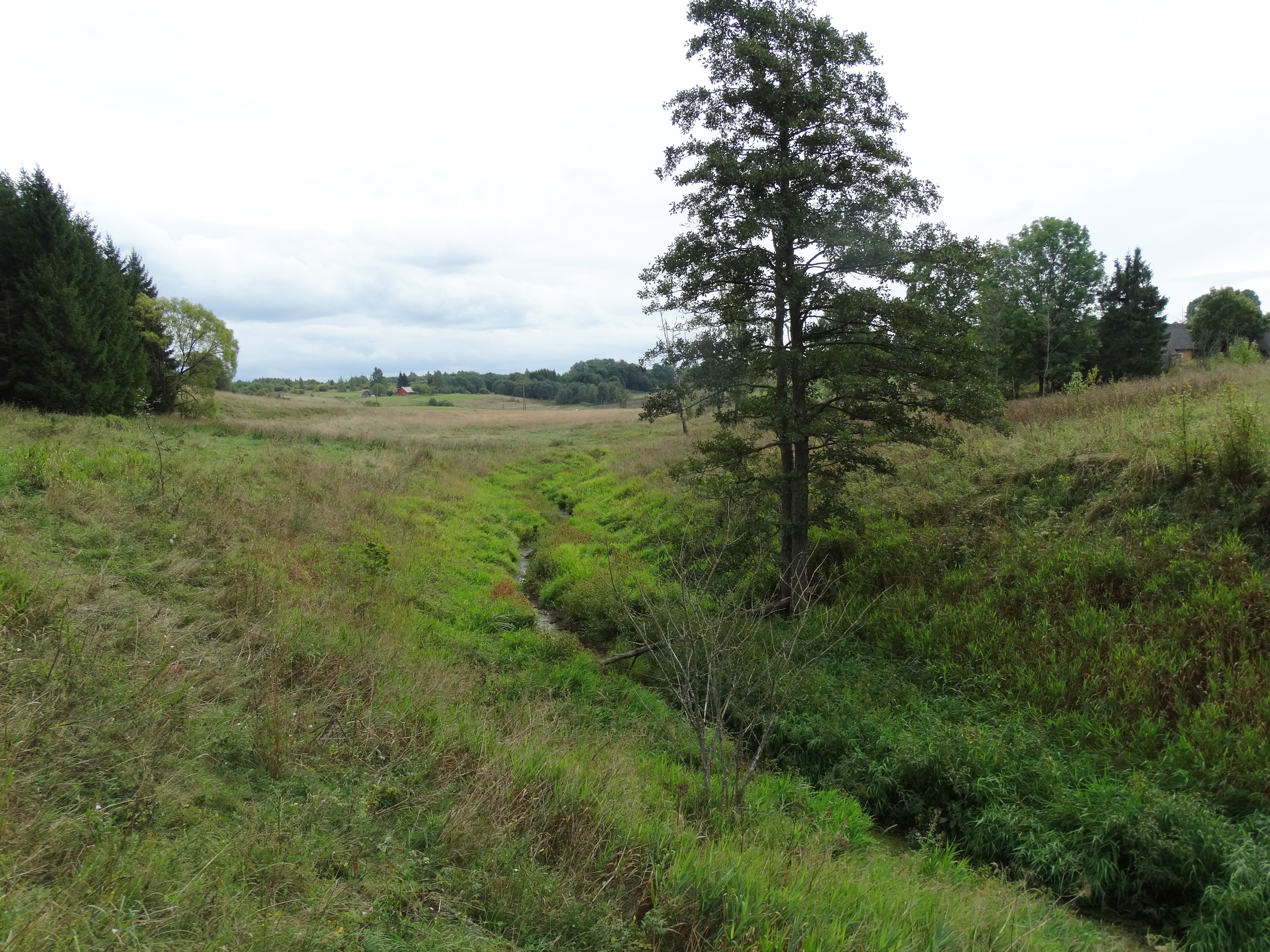 Alšyčia river, Ringailiai , Kaišiadorys District, Lithuania